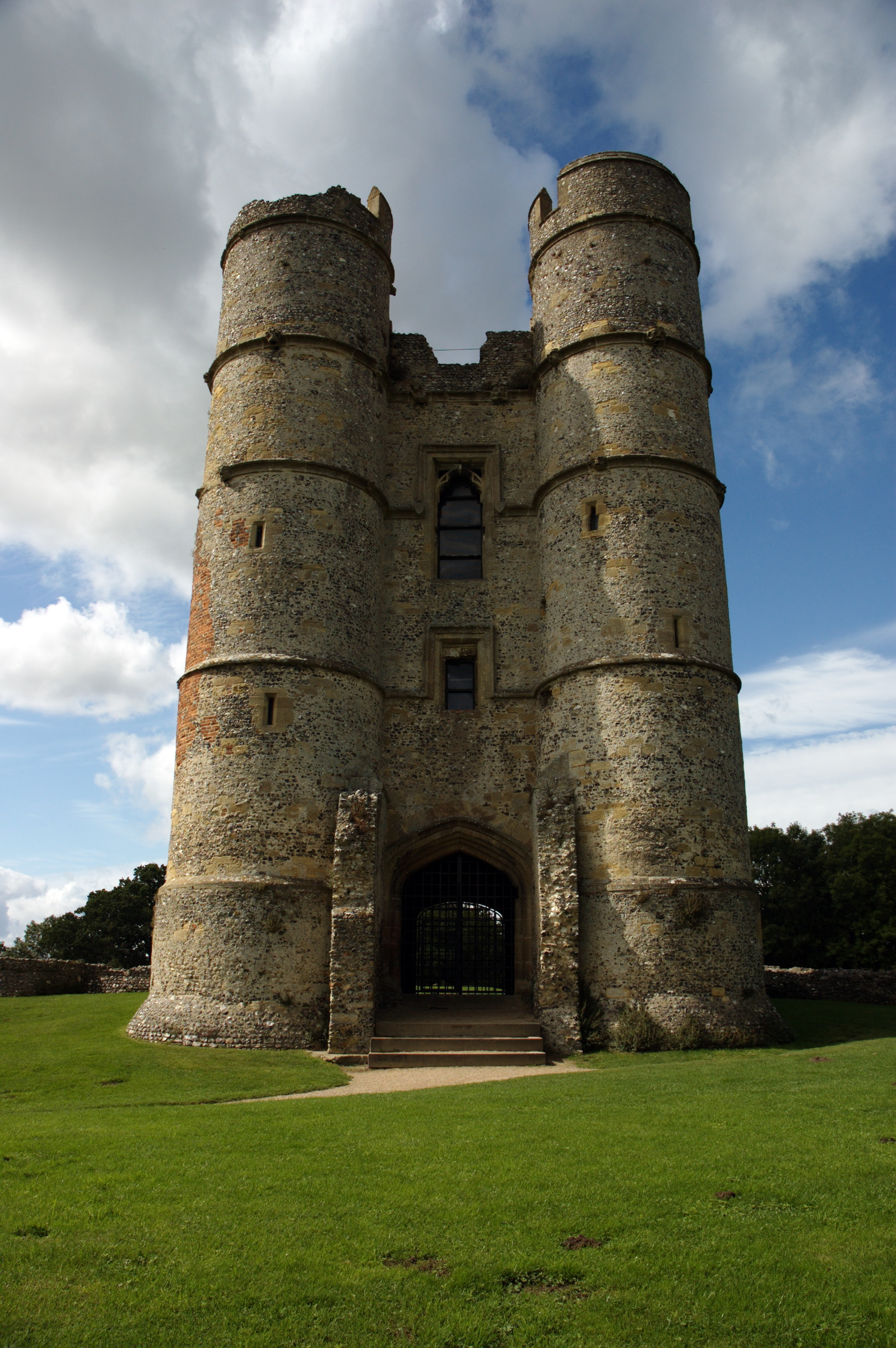 The striking twin-towerd gatehouse of the 14th-century Donnington Castle.